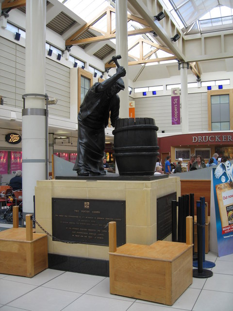 The Burton Cooper, Coopers Square Shopping Centre The bronze sculpture, The Burton Cooper by James Walter Butler was commissioned in 1977 and depicts a local craftsman. It originally stood opposite the market and was moved to its present location in 1994. Coopers Square Shopping Centre was originally constructed in three phases between 1969 & 1974. In 1994 & 1995 the scheme was completely refurbished and the open precincts were covered.